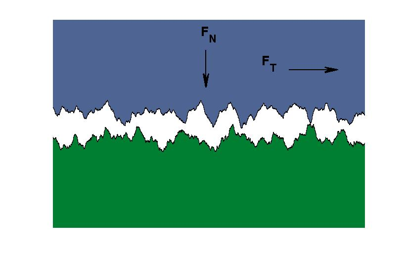 Two rough surfaces approaching contact, with applied normal and tangential forces.